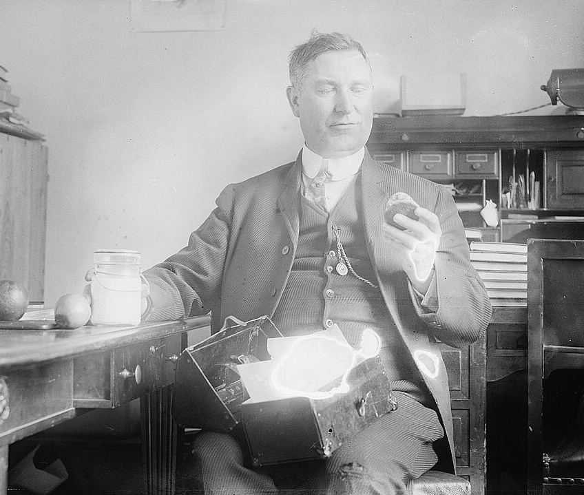 National Photo Company caption: Percy E. Quin, member of the House of Representatives from Miss. has a definite plan to beat the high cost of living, and incidentally Mr Quin has the courage of his convictions. The Mississippi member says "Wear your old cloths, have them patched and darned, wear a celluloid collar, carry your lunch etc. etc. Photo shows Mr Quin eating his lunch in his office at the House Office Building.